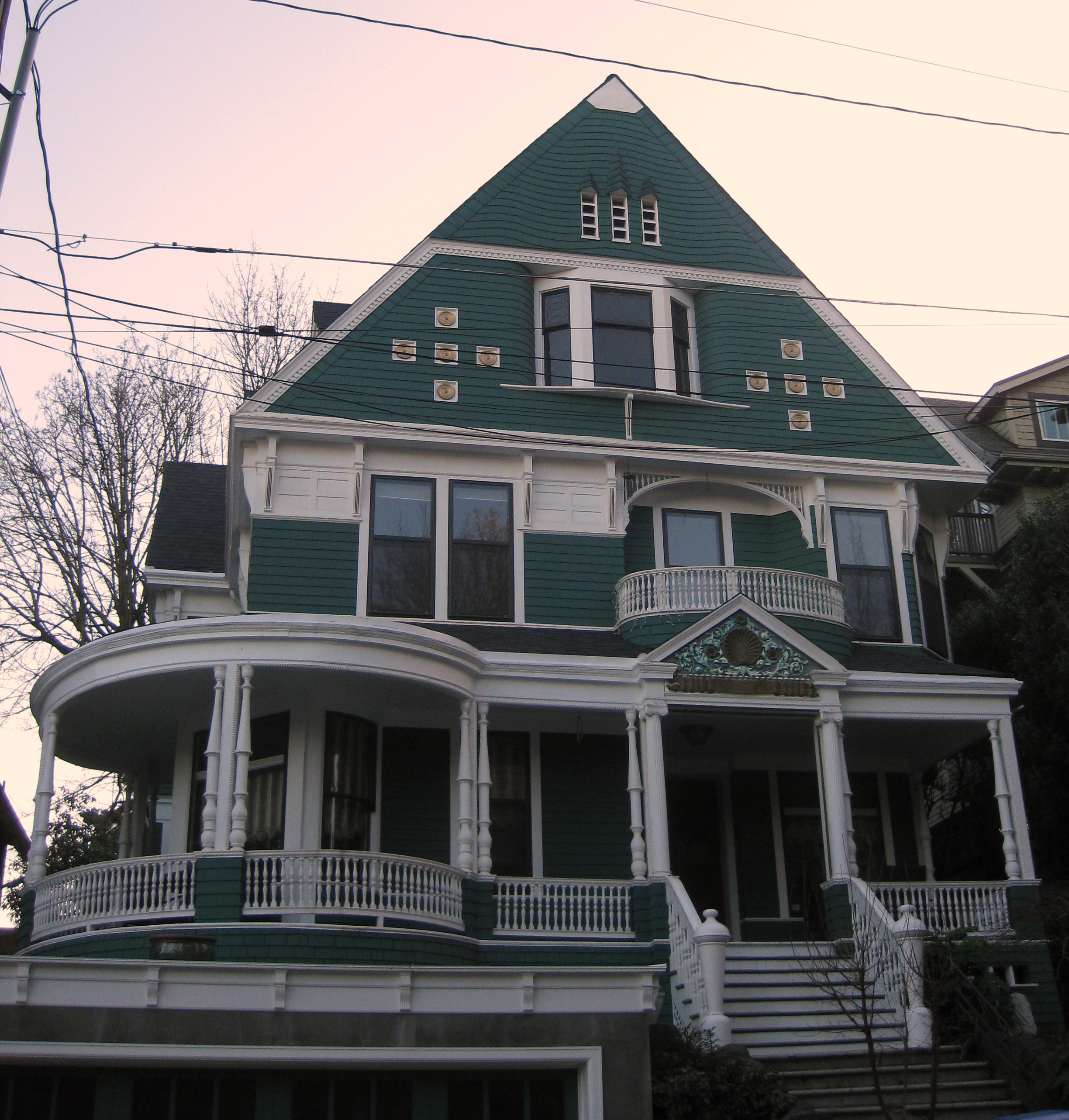 The historic Stratton-Cornelius House (built 1891) located 2182 SW Yamhill Street in Portland, Oregon, United States, is listed on the US National Register of Historic Places (NRHP). NRHP reference number 78002322